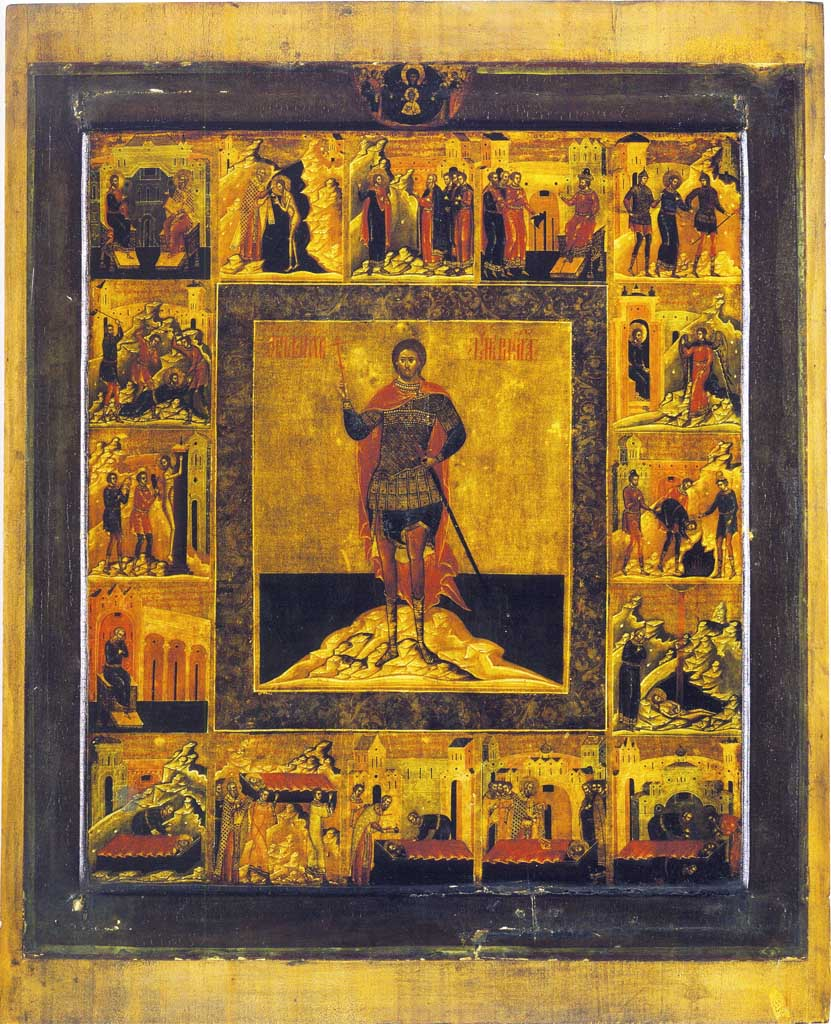 Saint Nikita